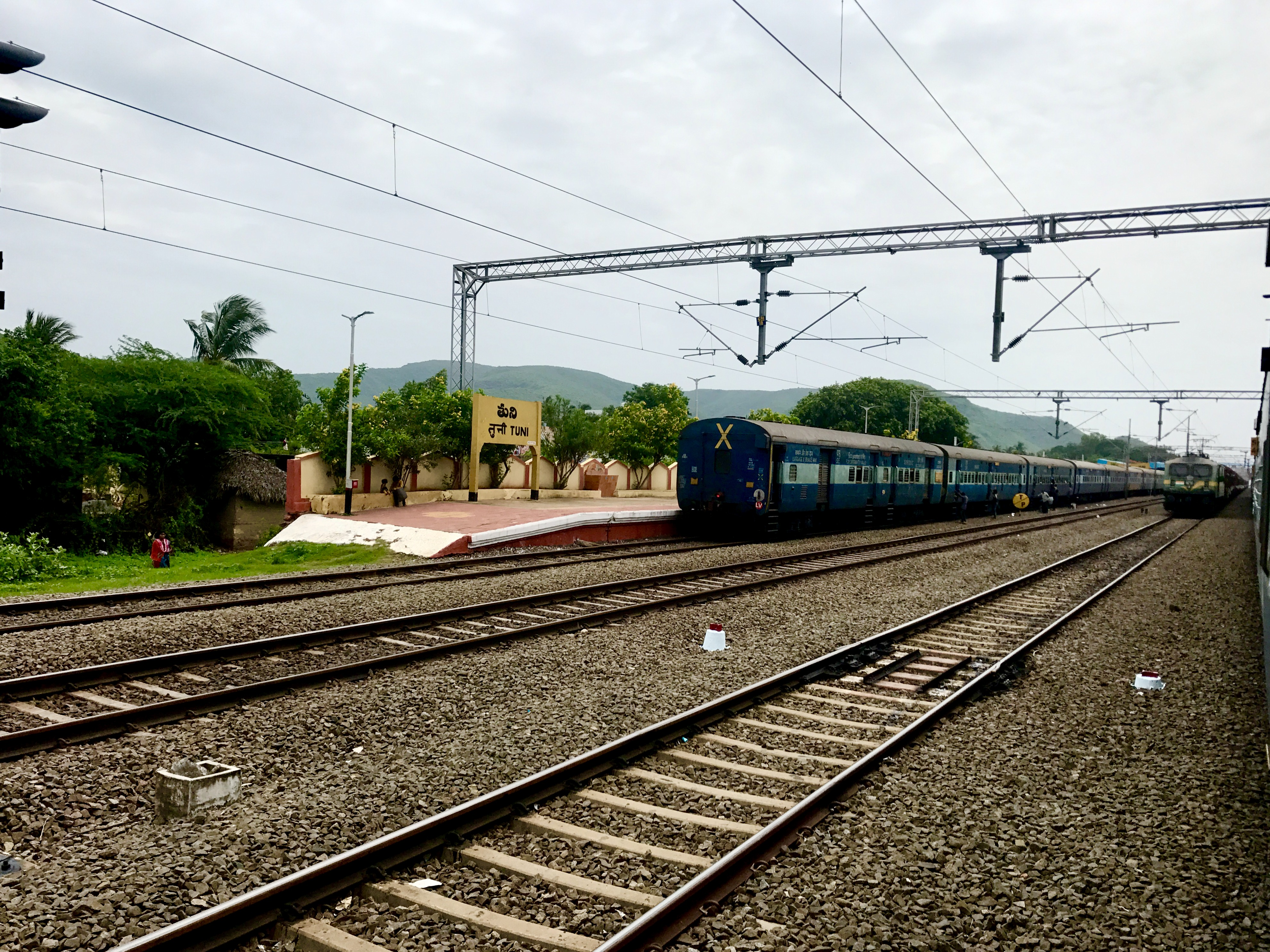 Tuni railway station board